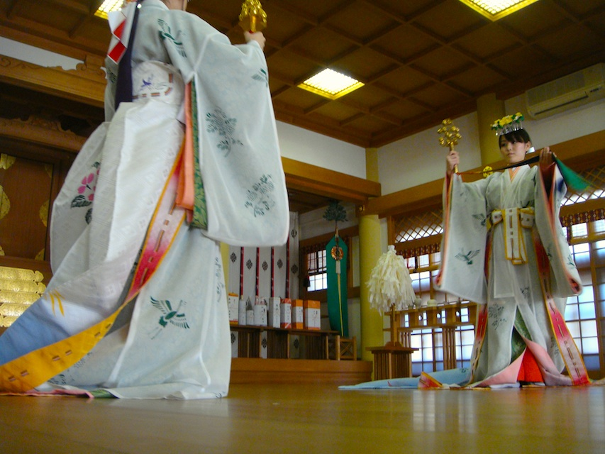 Urayasu no mai